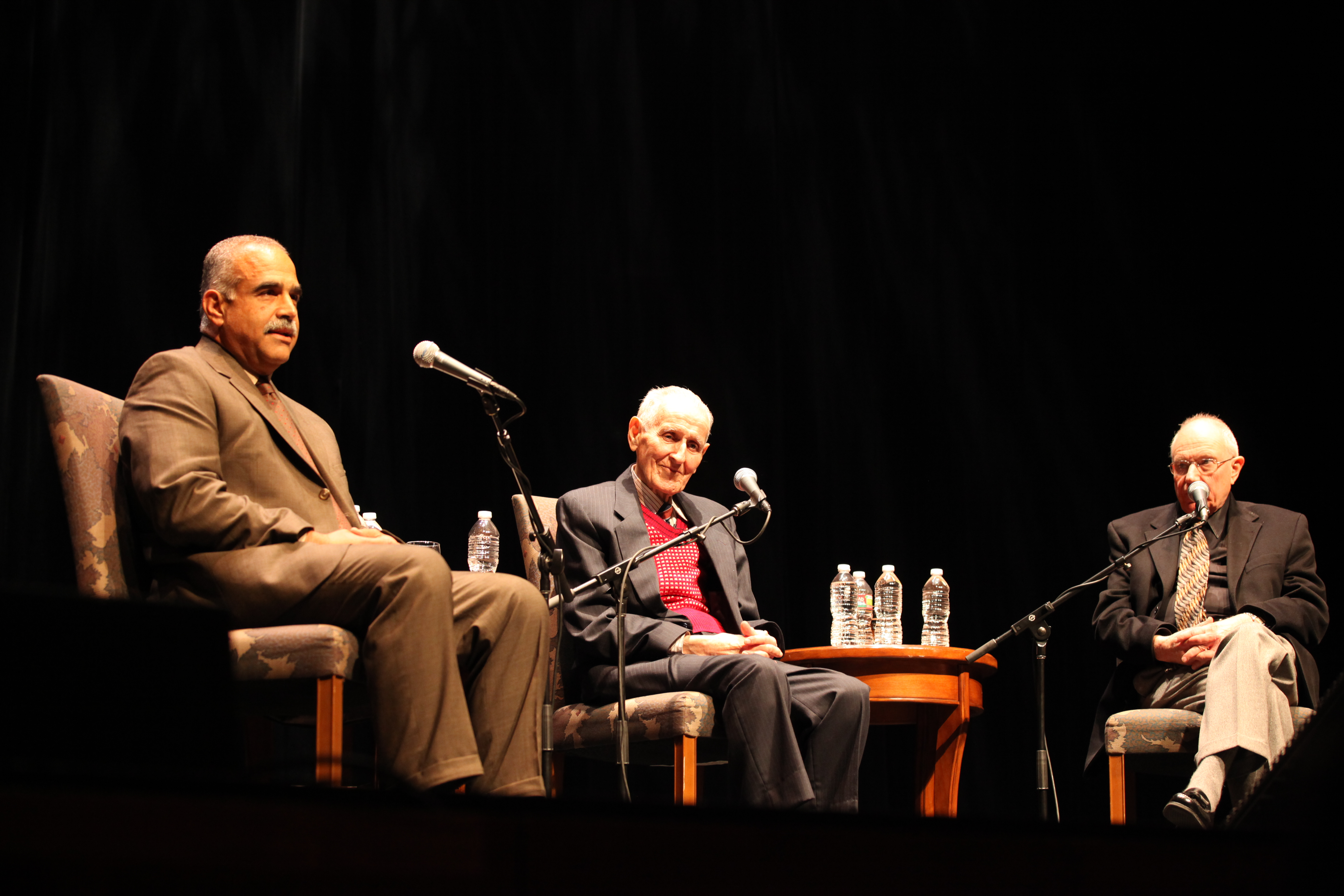 Jack Kevorkian answering questions at UCLA with lawyer Mayer Morganroth (right) and former Foreign Minister of Armenia, Raffi Hovannisian (left)